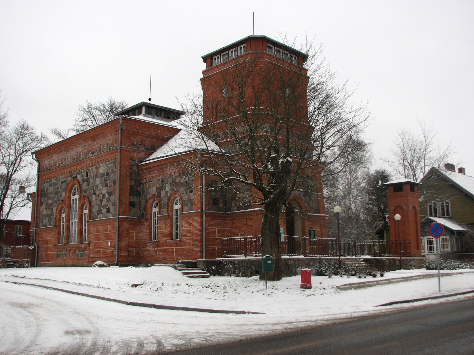 Tõrva church in Tõrva, Estonia